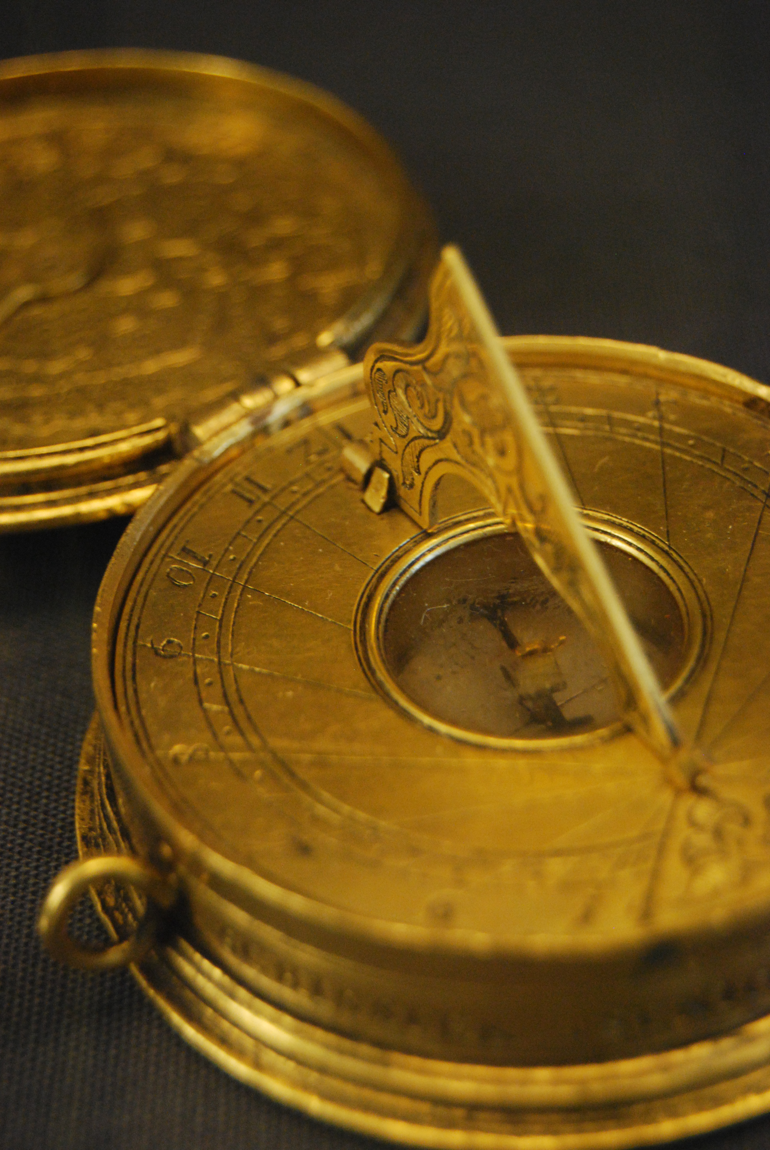 Pocket sundial (date unknown), Museum of the History of Science Oxford